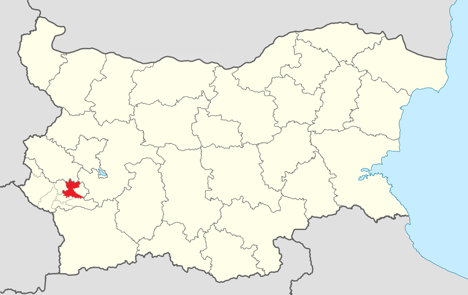 Location map of Dupnitsa Municipality within Bulgaria and Kyustendil province